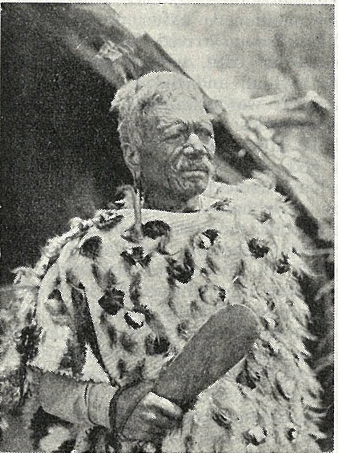 Te Heuheu Horonuku (Died 1888)